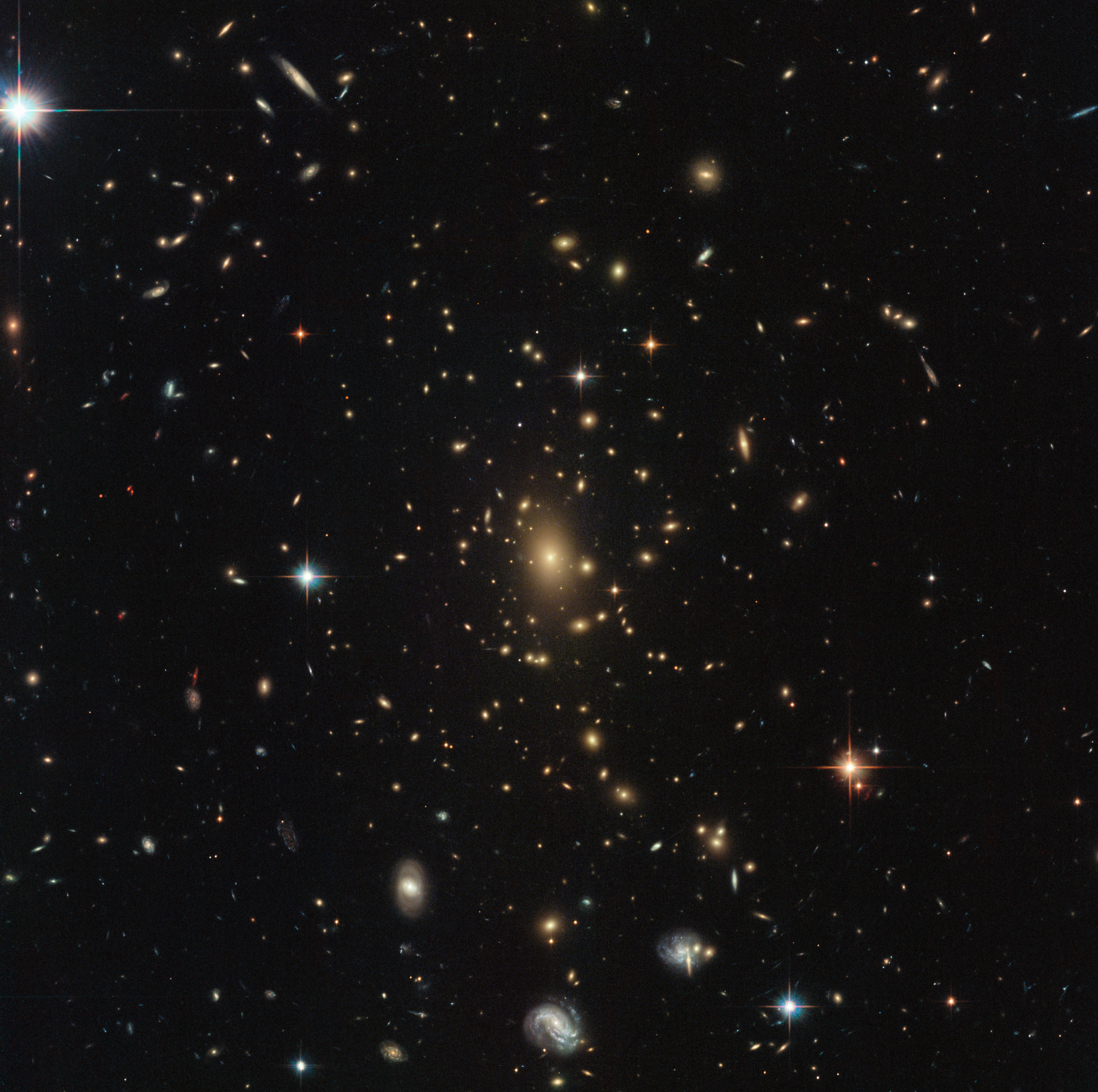 This busy image is a treasure trove of wonders. Bright stars from the Milky Way sparkle in the foreground, the magnificent swirls of several spiral galaxies are visible across the frame, and a glowing assortment of objects at the centre make up a massive galaxy cluster. Such clusters are the biggest objects in the Universe that are held together by gravity, and can contain thousands of galaxies of all shapes and sizes. Typically, they have a mass of about one million billion times the mass of the Sun — unimaginably huge! Their incredible mass makes clusters very useful natural tools to test theories in astronomy, such as Einstein’s theory of general relativity. This tells us that objects with mass warp the fabric of spacetime around them; the more massive the object, the greater the distortion. An enormous galaxy cluster like this one therefore has a huge influence on the spacetime around it, even distorting the light from more distant galaxies to change a galaxy’s apparent shape, creating multiple images, and amplifying the galaxy’s light — a phenomenon called gravitational lensing. This image was taken by Hubble’s Advanced Camera for Surveys and Wide-Field Camera 3 as part of an observing programme called RELICS (Reionization Lensing Cluster Survey). RELICS imaged 41 massive galaxy clusters with the aim of finding the brightest distant galaxies for the forthcoming NASA/ESA/CSA James Webb Space Telescope (JWST) to study.